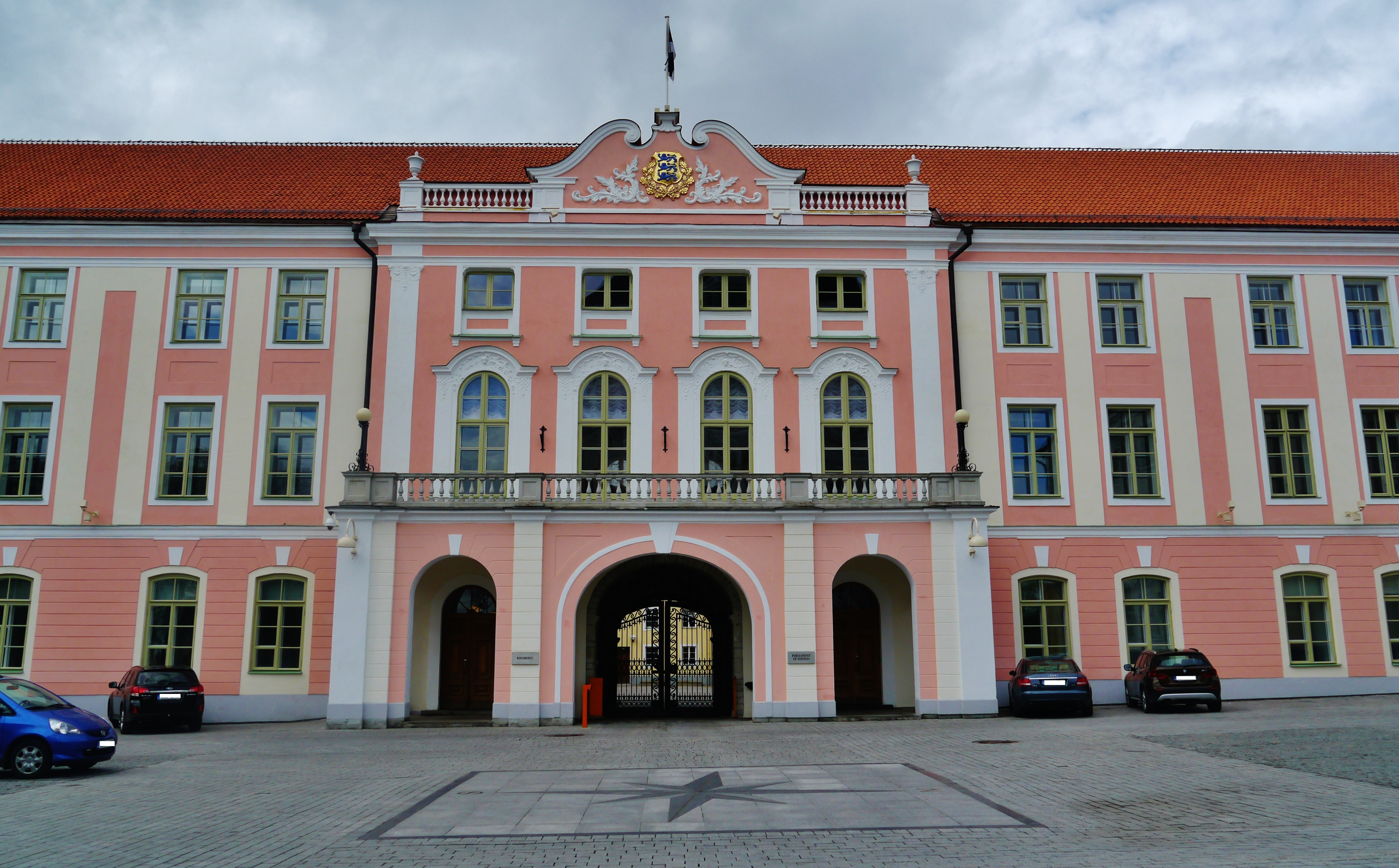 Palace, Tallinn, Estonia